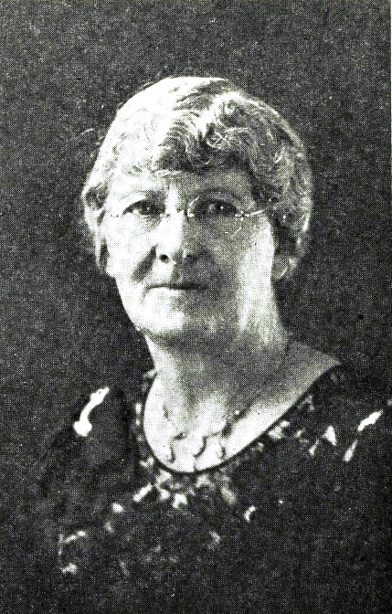 Alice Almira Robinson Richards, wife of George F. Richards. George F. Richards was a member of the Quorum of the Twelve Apostles, President of the Quorum of the Twelve and an Acting Presiding Patriarch for The Church of Jesus Christ of Latter-day Saints (LDS Church)